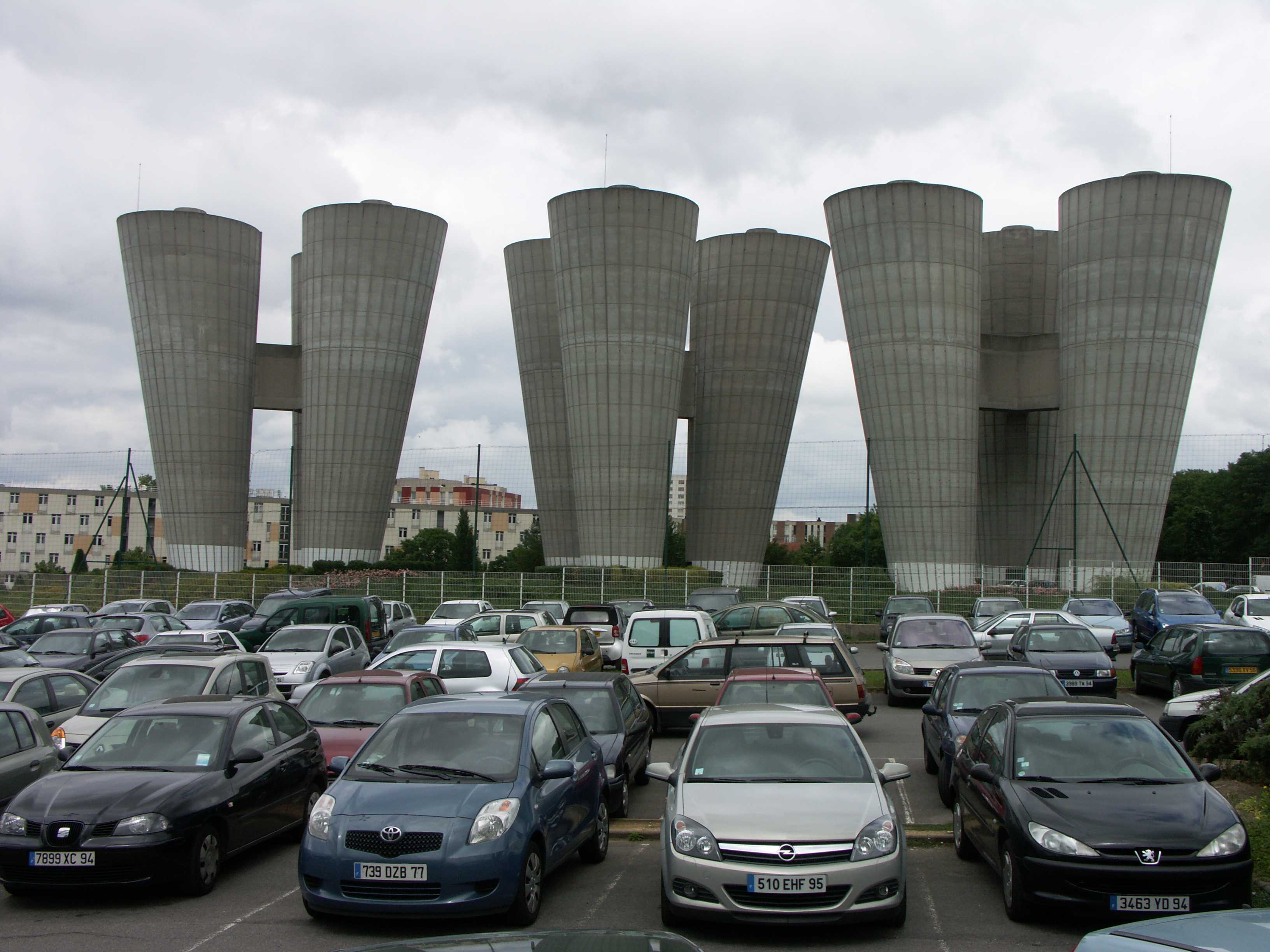 Villejuif : Group of 9 Water towers